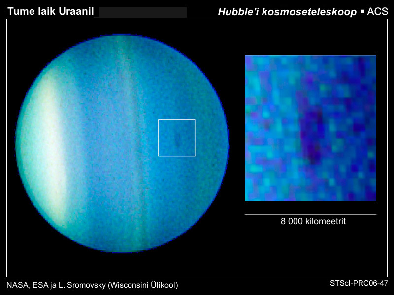 The first dark spot on Uranus ever observed.